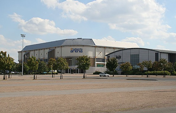 The Sheffield Arena Part of the revitalisation of the formerly heavily industrialised Don Valley